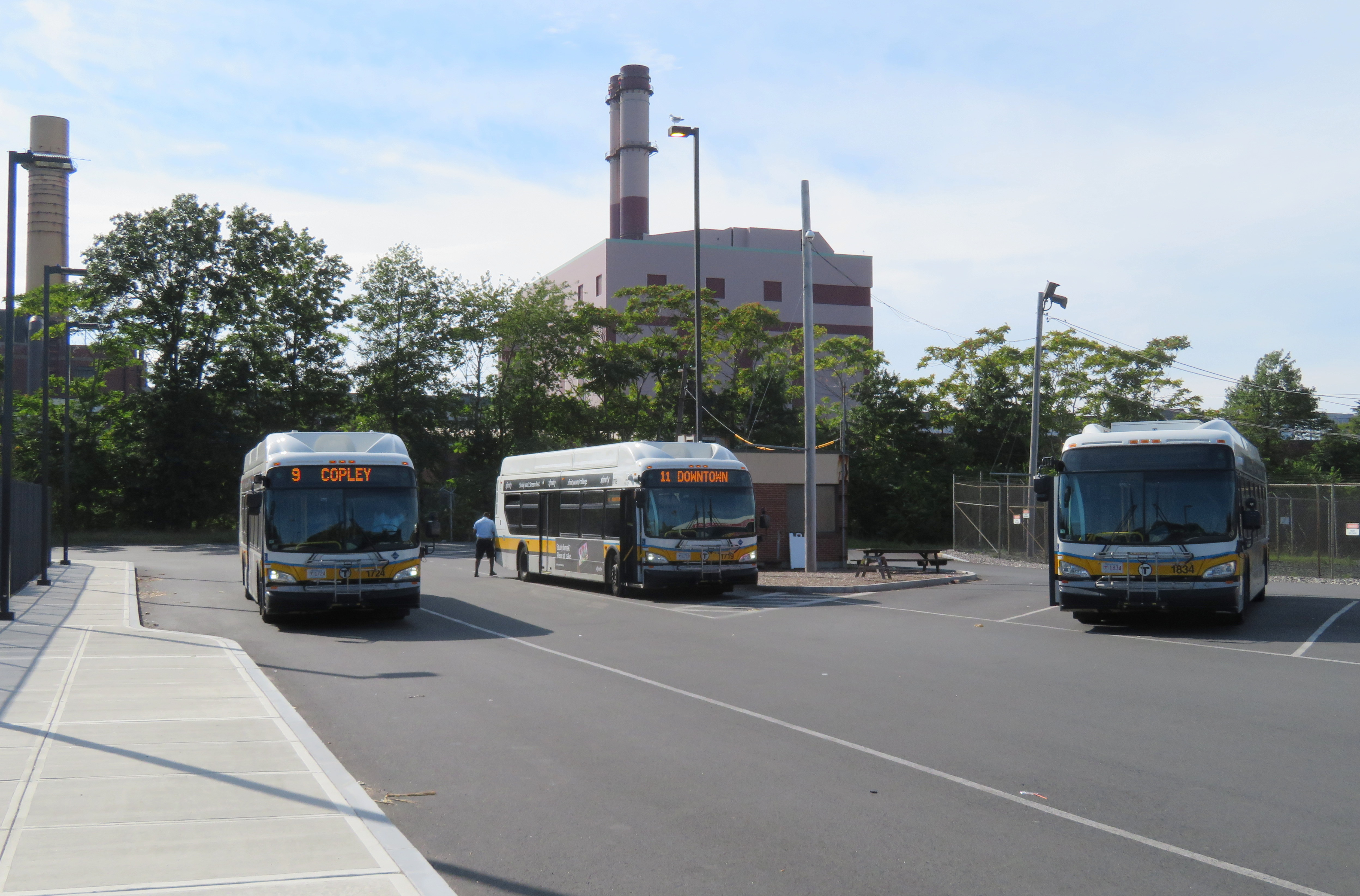 Three buses at City Point Bus Terminal in August 2018